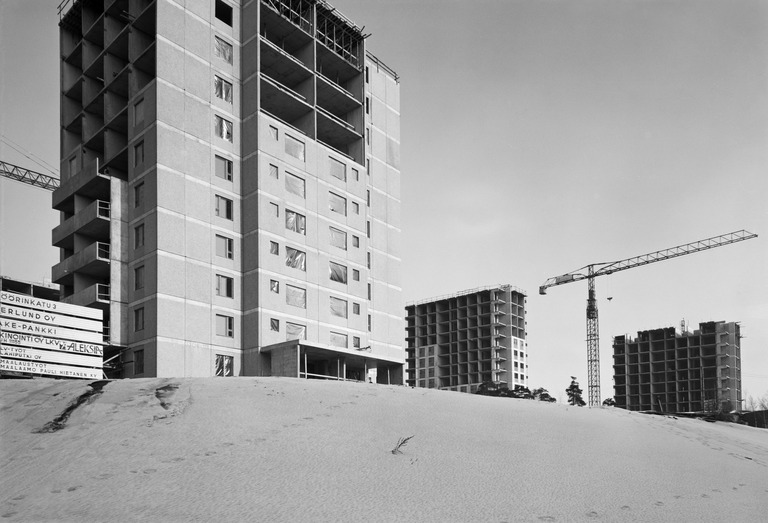 Building Eastern Pasila in 1974.